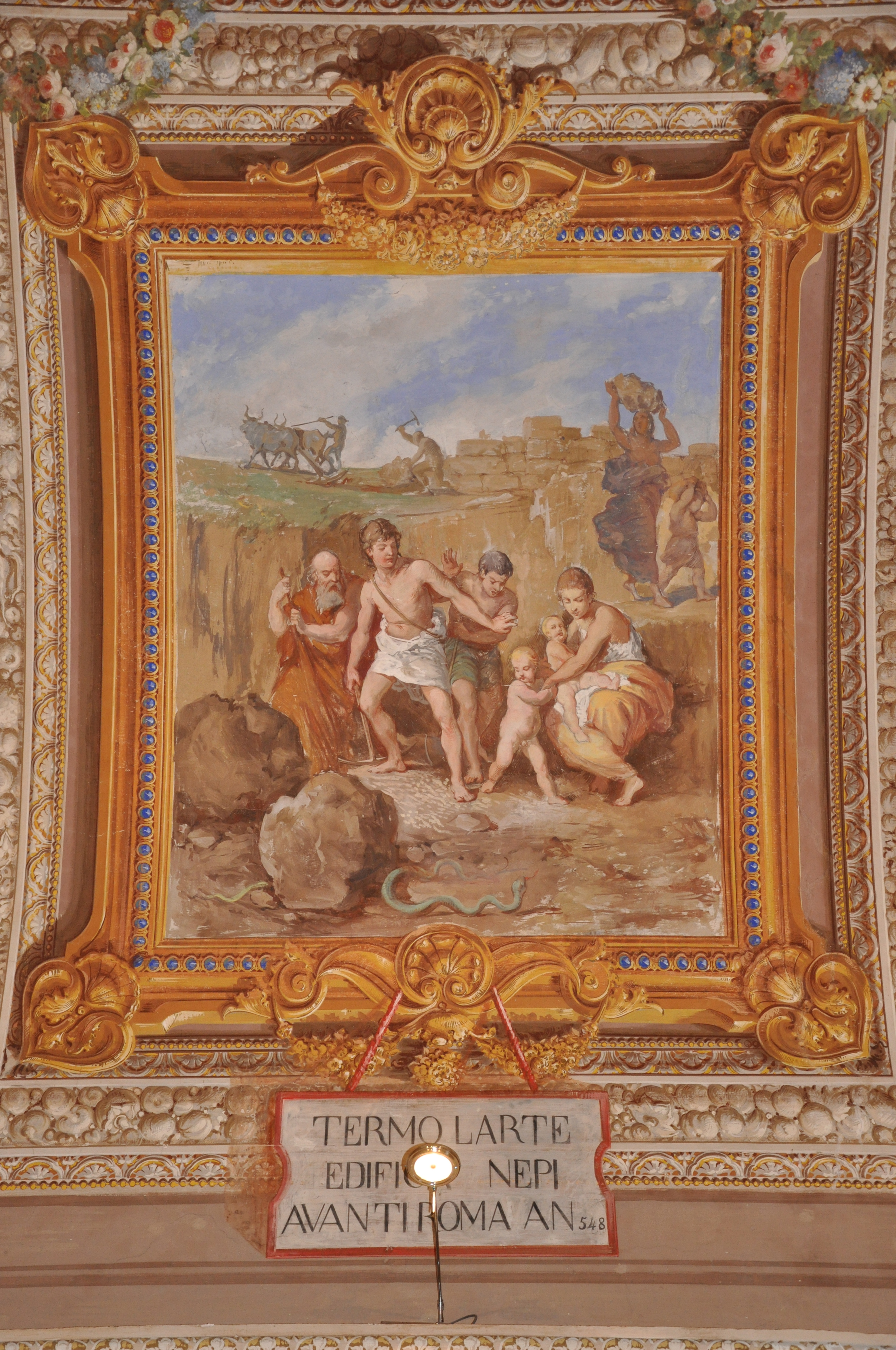 Termo Larte builds Nepi - Fresco in the noble hall of the town hall of Nepi, Domenico Torti, 1870